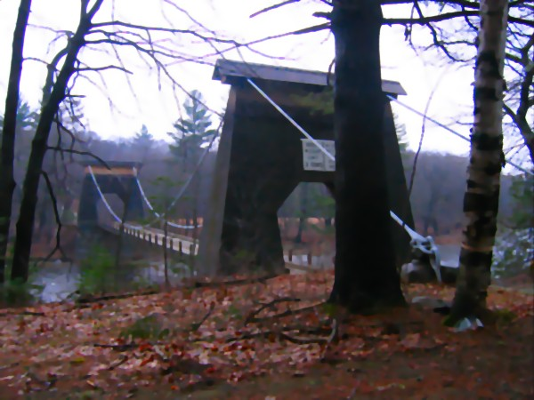 Author, Phil Poirier